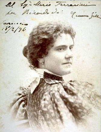 Detail of a carte de visite of the Italian soprano Emma Zilli (1864-1901)